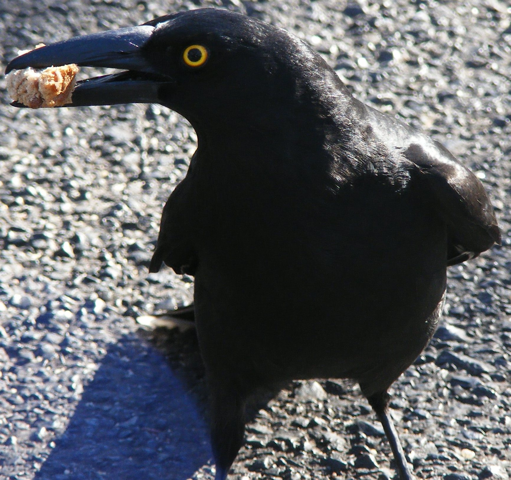 Pied Currawong with a piece of low GI fruitloaf that I gave it before I stoned it in the Blue Mountains